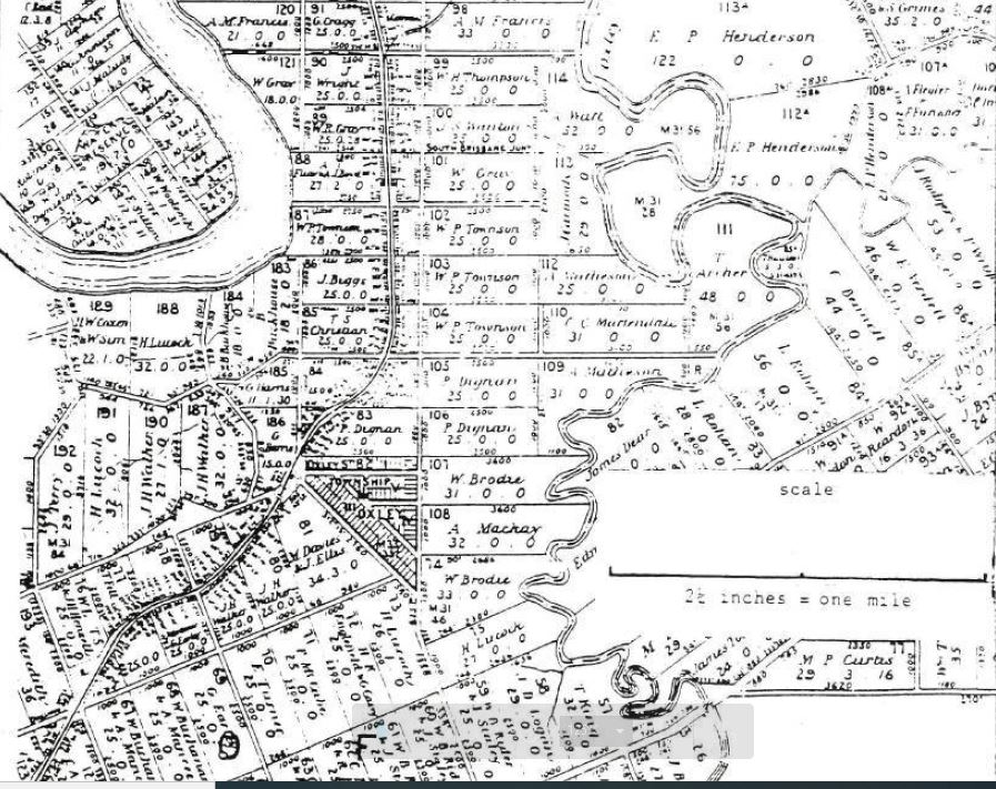 Subdivision map in the 1860s of Initial Landholders in the Corinda, Oxley and 17 Mile Rocks area.